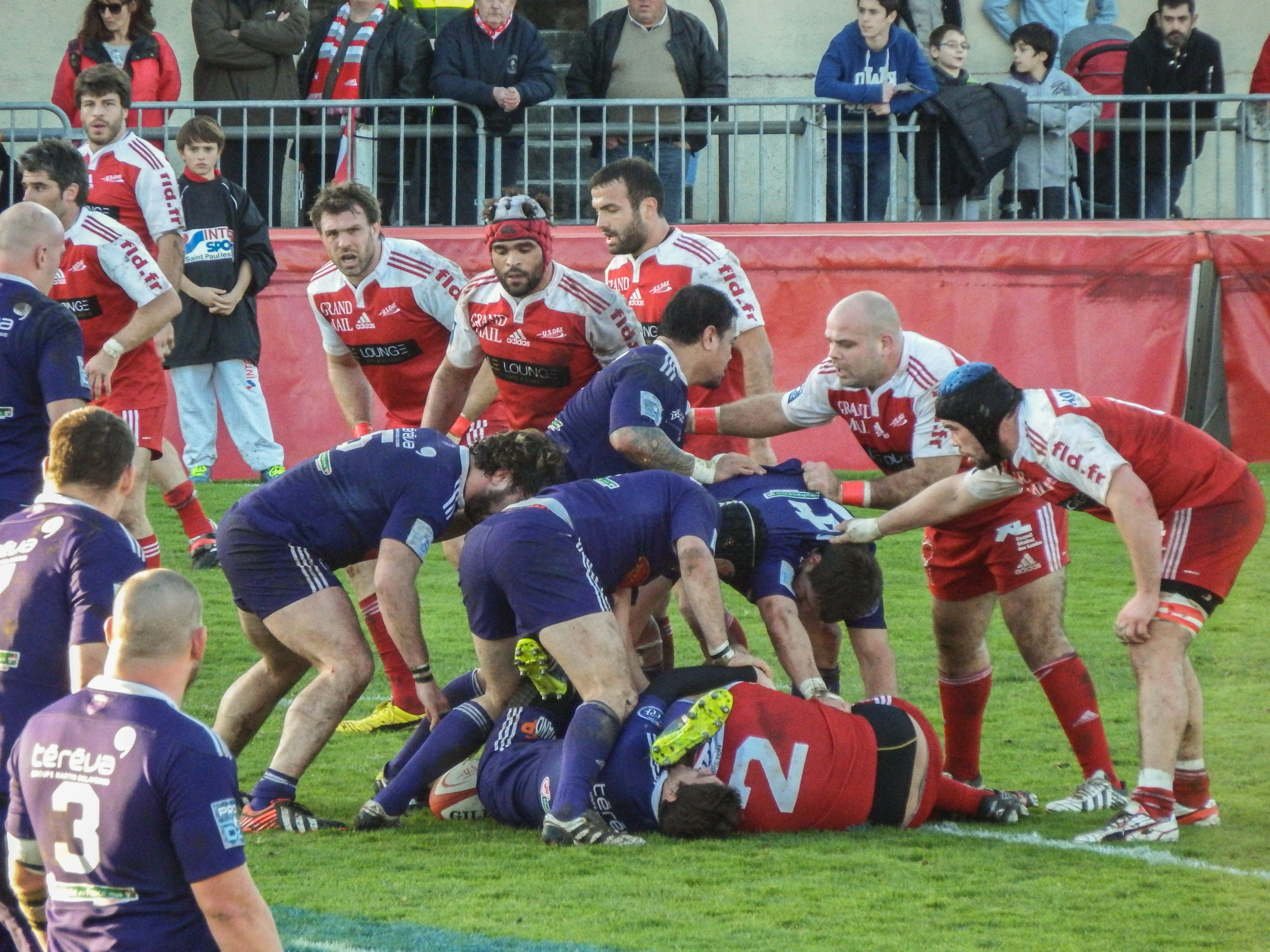 Pro D2 2013-2014 — 16 February 2014, Stade Maurice-Boyau. Match between: US Dax — Union sportive bressane Pays de l'Ain